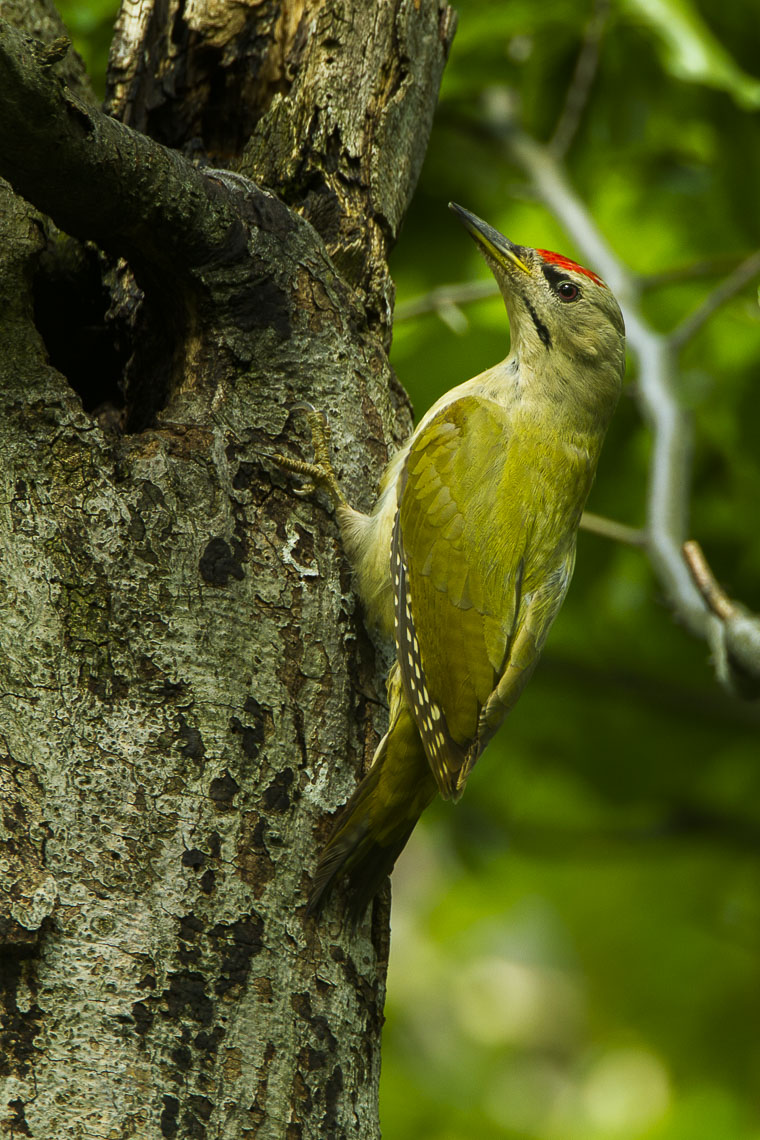 Grey-headed Woodpecker - Italy_S4E5692